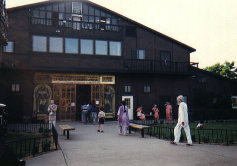 Picture of Hare Krishna Temple (Sri Sri Radha Vrindavan Chandra Temple) at New Vrindaban community near Moundsville, West Virginia, in July of 1997.